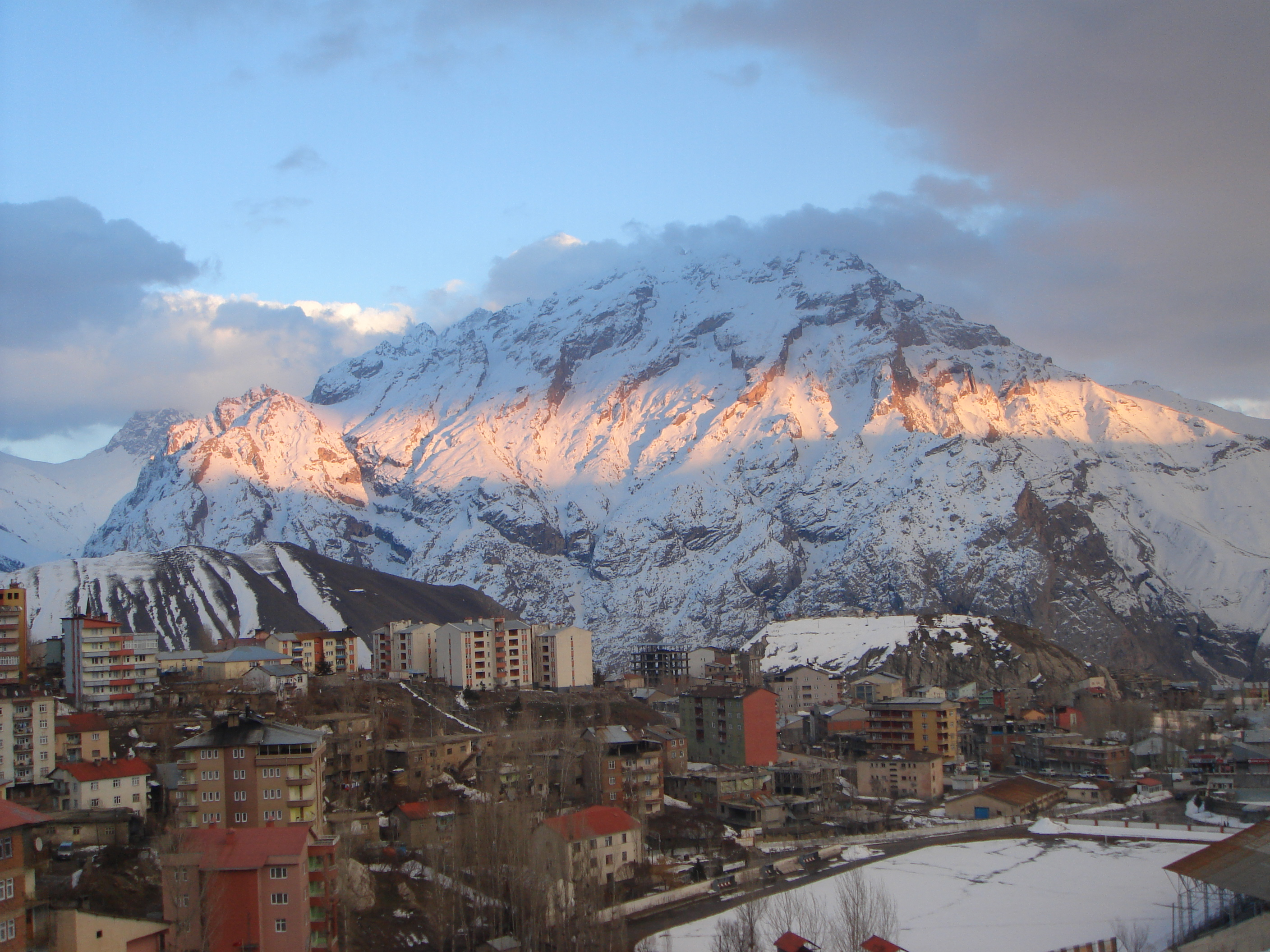 Mountain Hyacinth